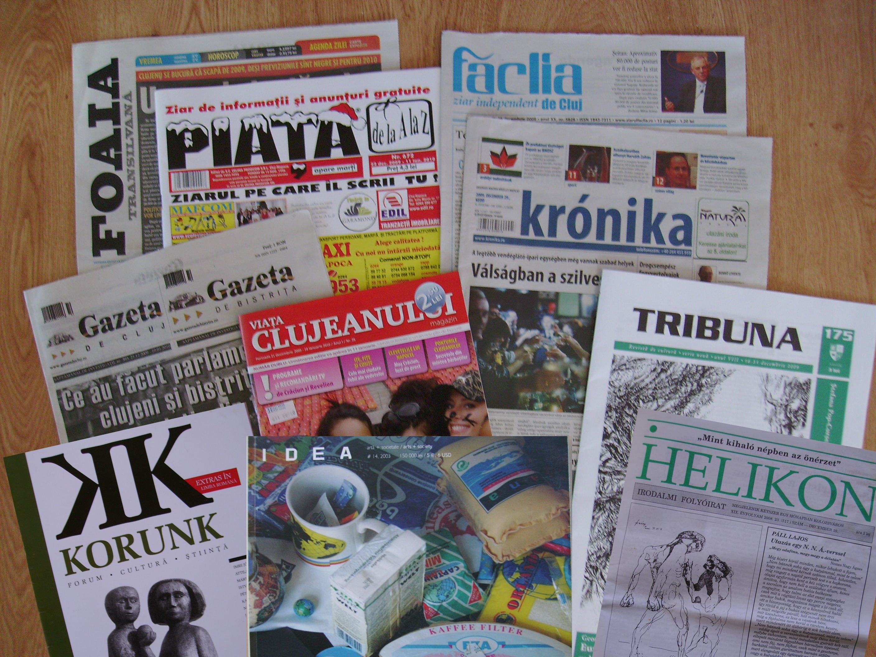 Newspapers and magazines published in Cluj